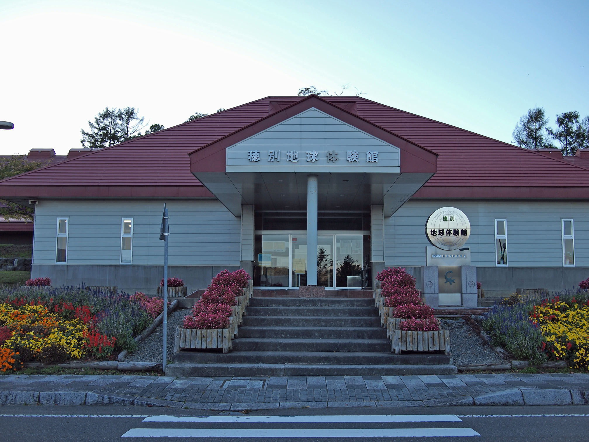 Hobetsu Earth Experience Museum, Mukawa, Hokkaido, Japan